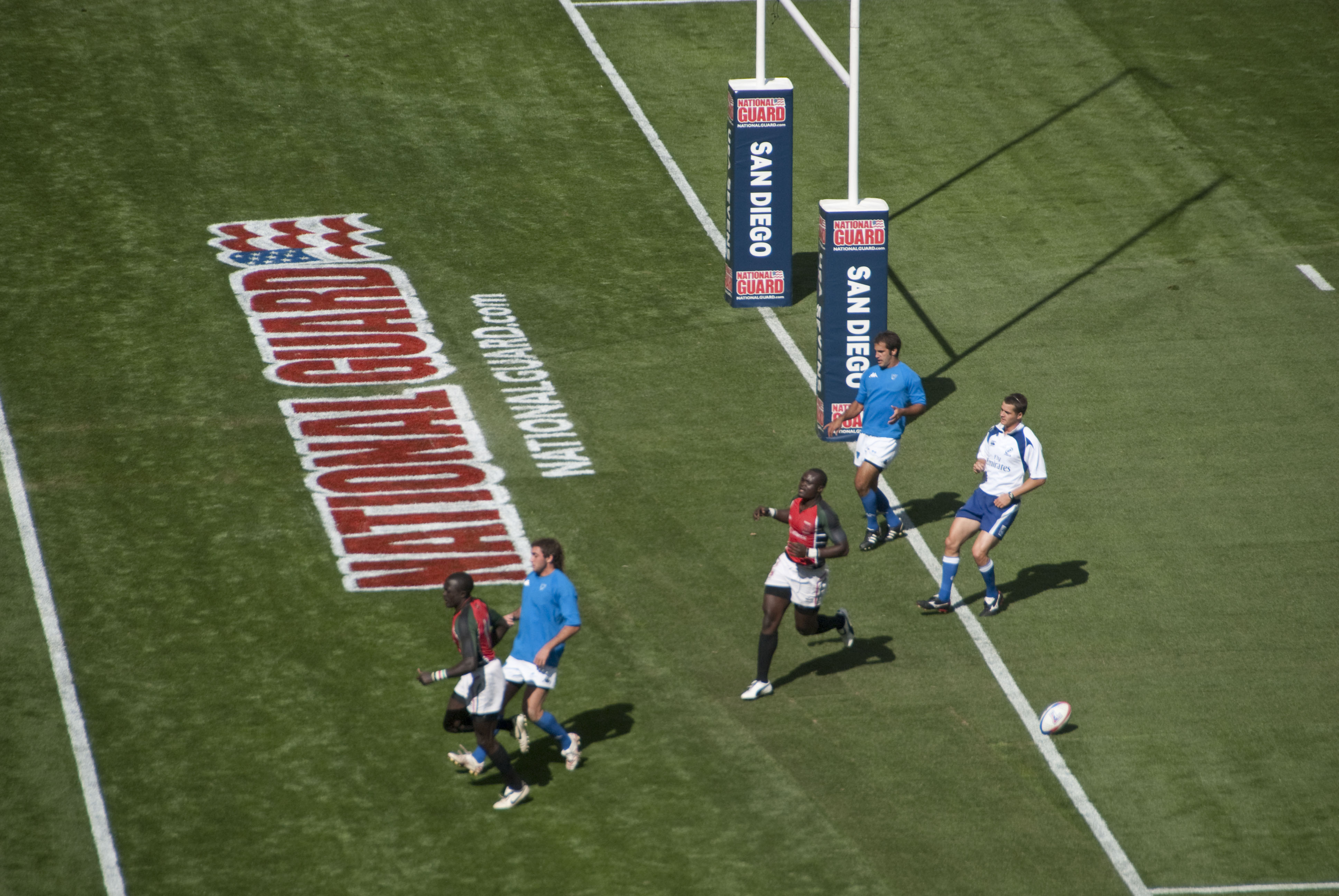 USA Rugby officially announced the extension of its partnership agreement with the Army National Guard for 2009. This program will have a great impact at the high school, and especially the collegiate levels of USA Rugby as the National Guard puts 12,500 jerseys on players helping to grow the sport at an earlier age. This expanded alliance includes prominent exposure at 20 large scale events as shown here during the International Rugby Board (IRB) Sevens World Series Event at Petco Park in San Diego, February 14, 2009. (U.S. Air Force Photo by Tech Sgt. Julie Avey)